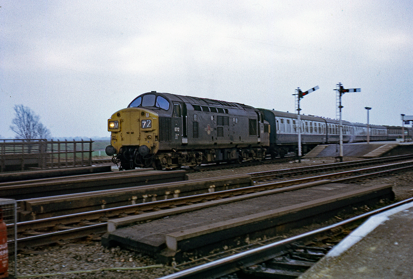 BR Class 37/0 D6712 (37012) departing Ely with an up passenger train in 1971. Scanned from a Kodachrome 35mm slide.